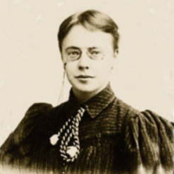 Vera Jevstafjevna Popova (née Bogdanovskaia, 1868-1897), Russian Empire chemist.